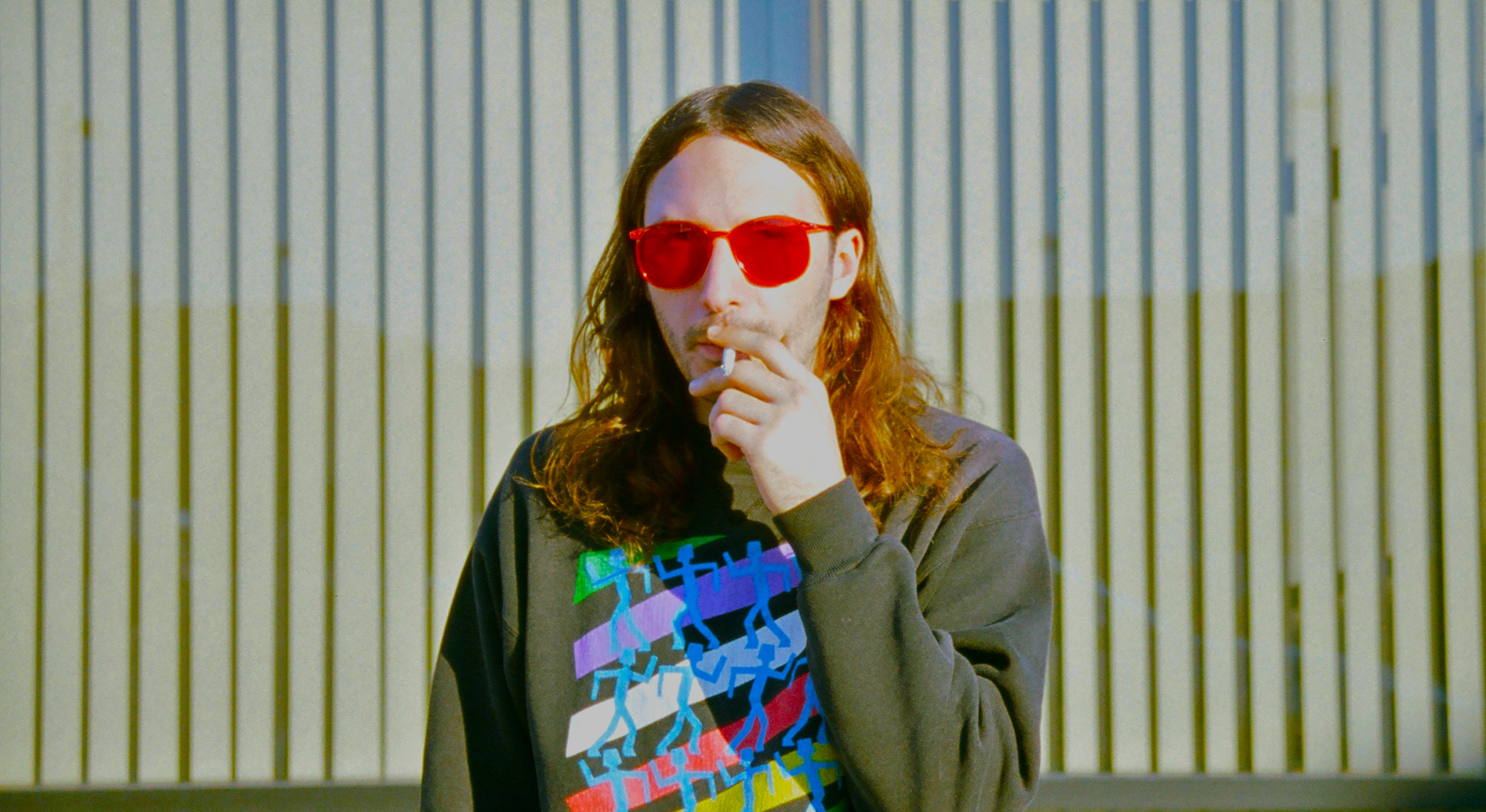 Gabe Fulvimar of Gap Dream having a smoke